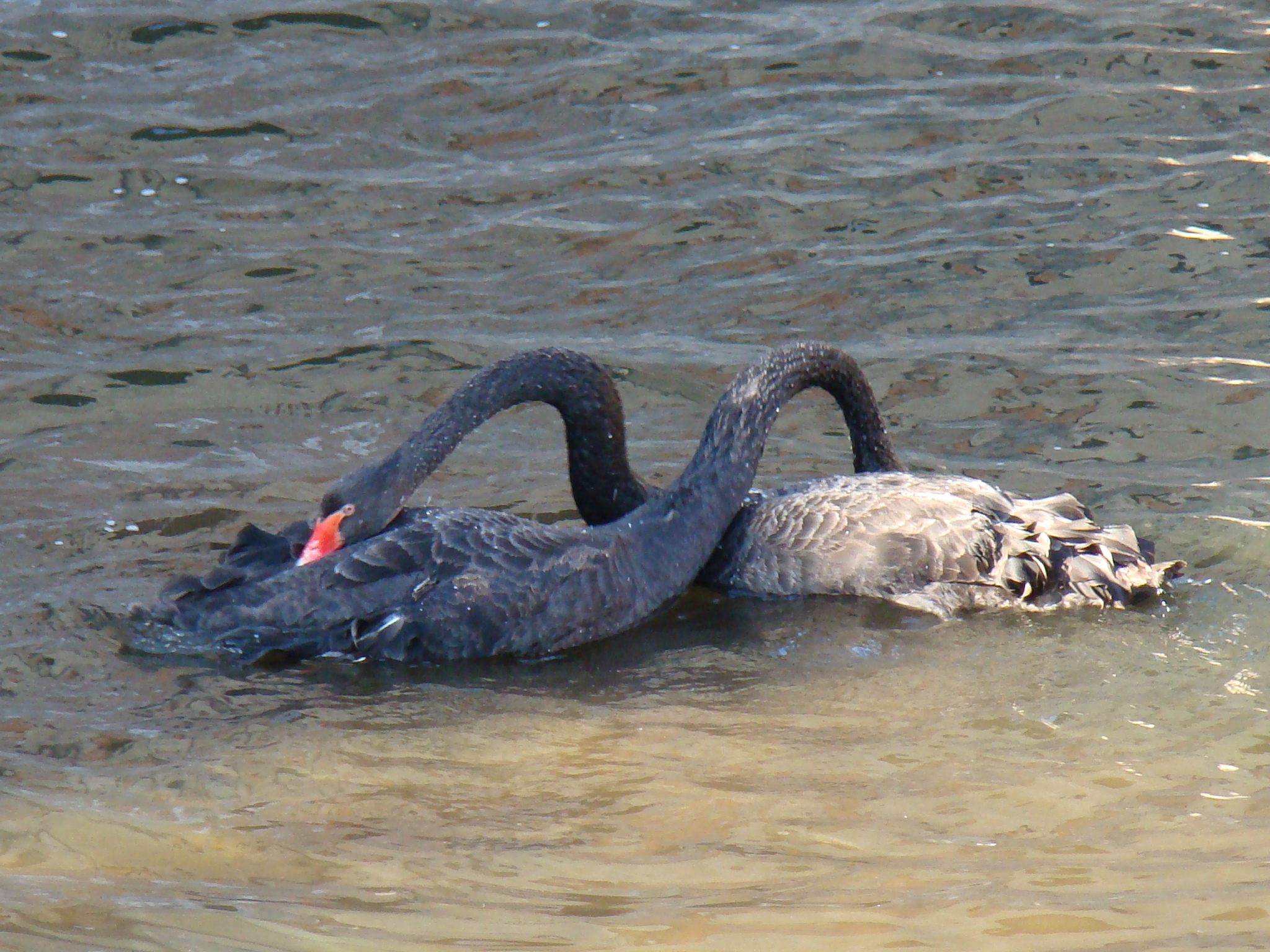 Photo of the Black Swan (Cygnus atratus) in in Belmontas, Vilnius, Lithuania.